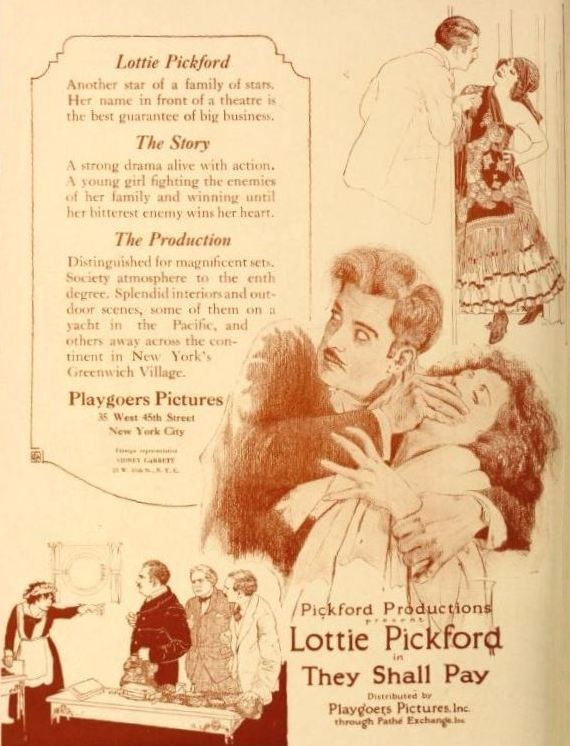 Advertisement for the American drama film They Shall Pay (1921) with Allan Forrest and Lottie Pickford, from the insert after page 50 of the August 27, 1921 Exhibitors Herald.